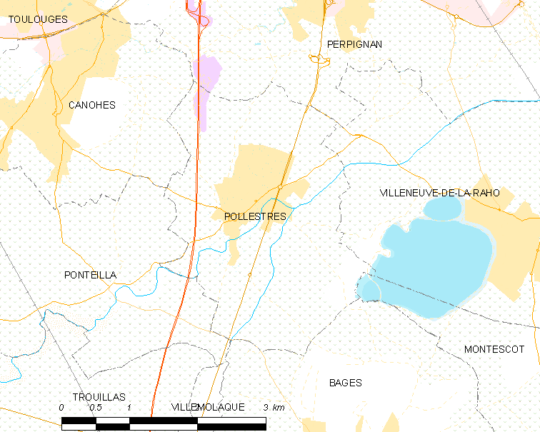 Map of French municipality